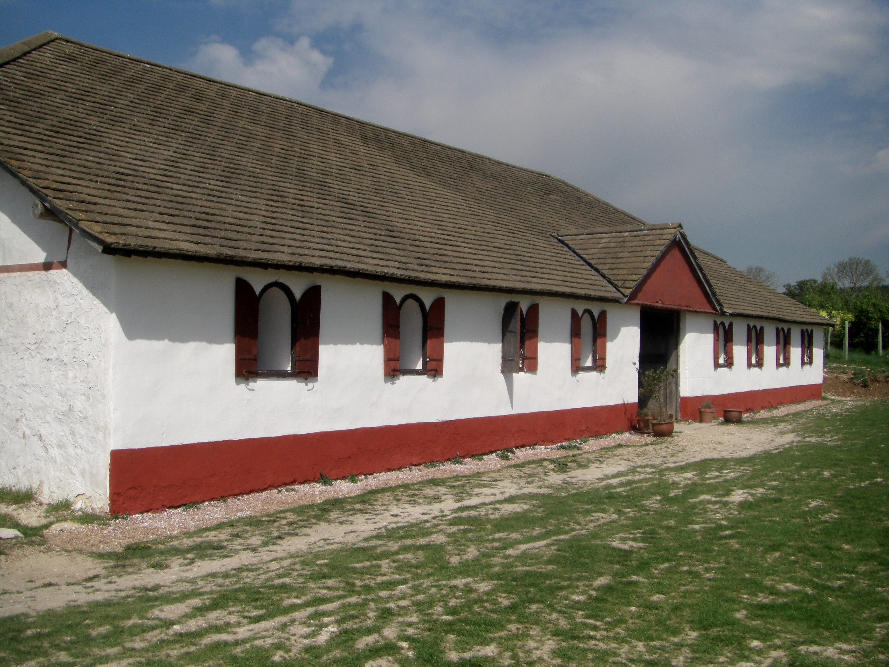 The reconstructed Roman Villa at Butser Ancient Farm, West Sussex.